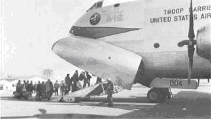 French military personnel board a Tactical Air Command C-124 Globemaster at Orly Field, Paris, bound for Indochina, May 3, 1954.